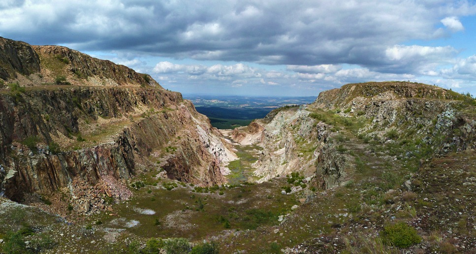 Quarry Stanisław on top of Izerskie Garby in the Jizera Mountains.